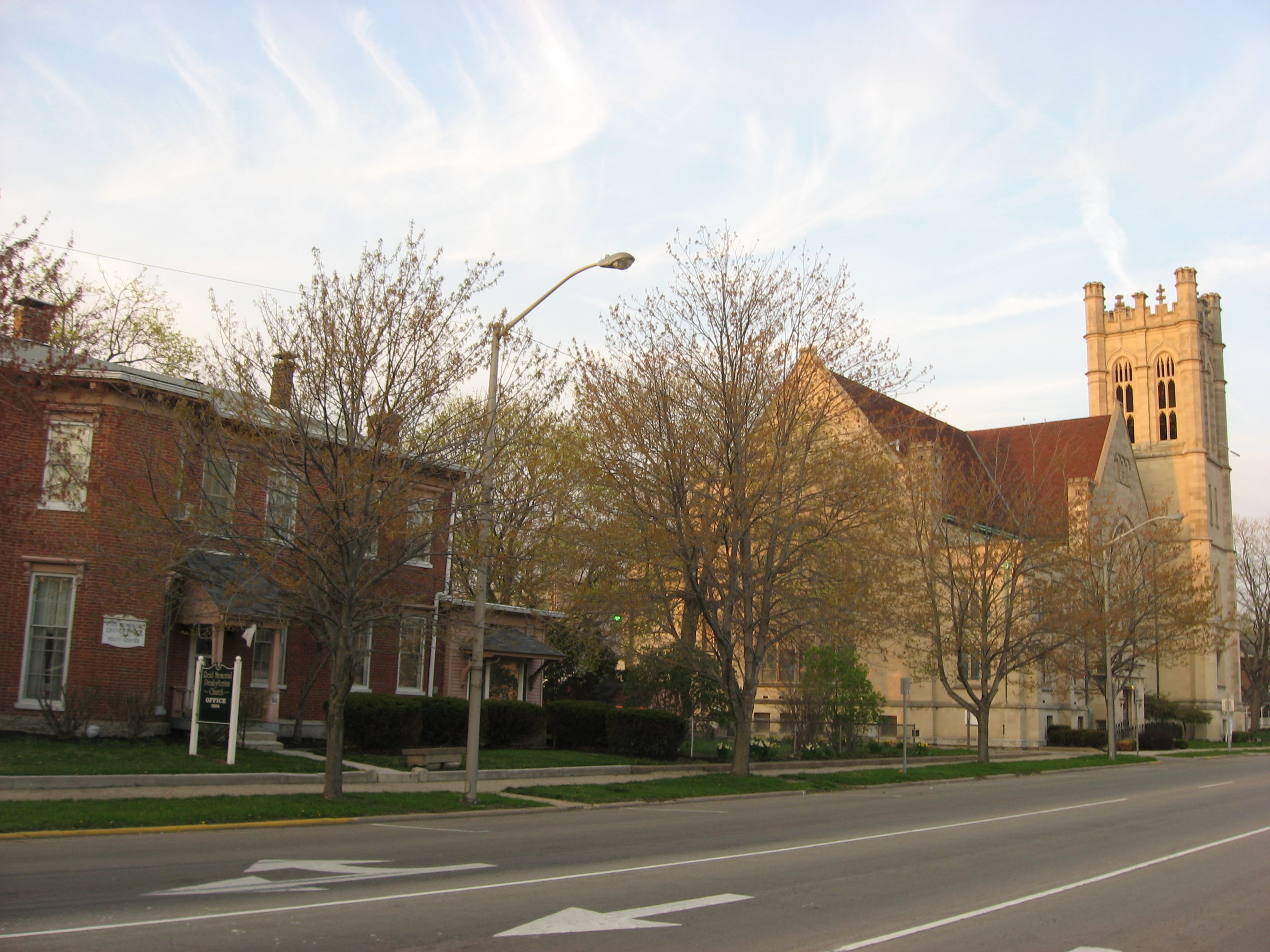 Southern side of Reid Memorial Presbyterian Church (right) and its former parsonage (left), located on the northern side of the 1000 block of N. A Street (U.S. Route 40) in Richmond, Indiana, United States. This block is part of the Starr Historic District, a historic district that is listed on the National Register of Historic Places.